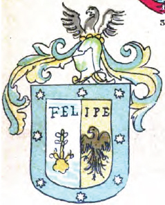 Coat of arms of "Don Diego, principal de la cibdad de México y Gobernador entre los naturales della".